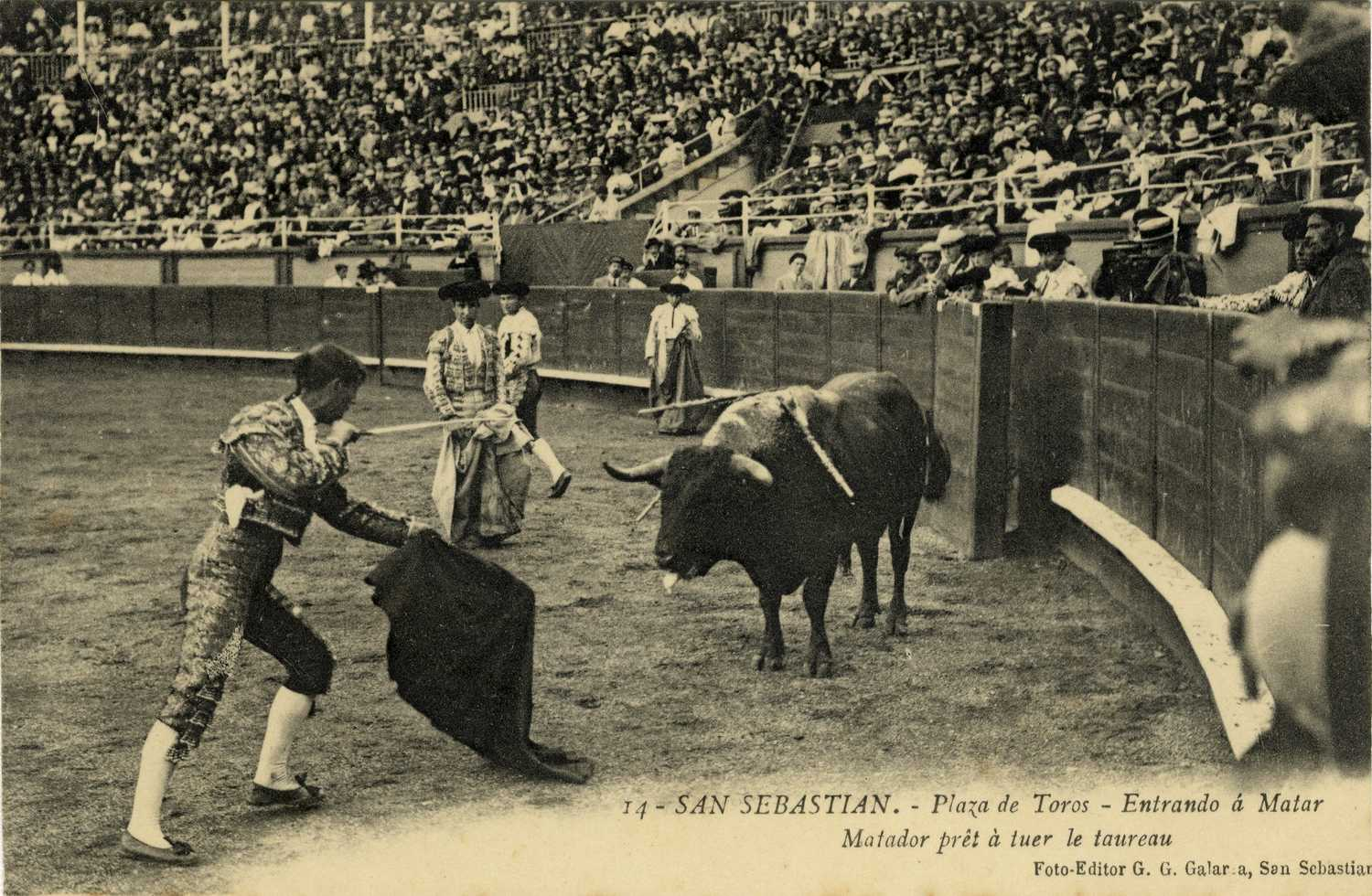 Nº 14 Tarjeta postal Editor: San Sebastián: G. G. Galarza